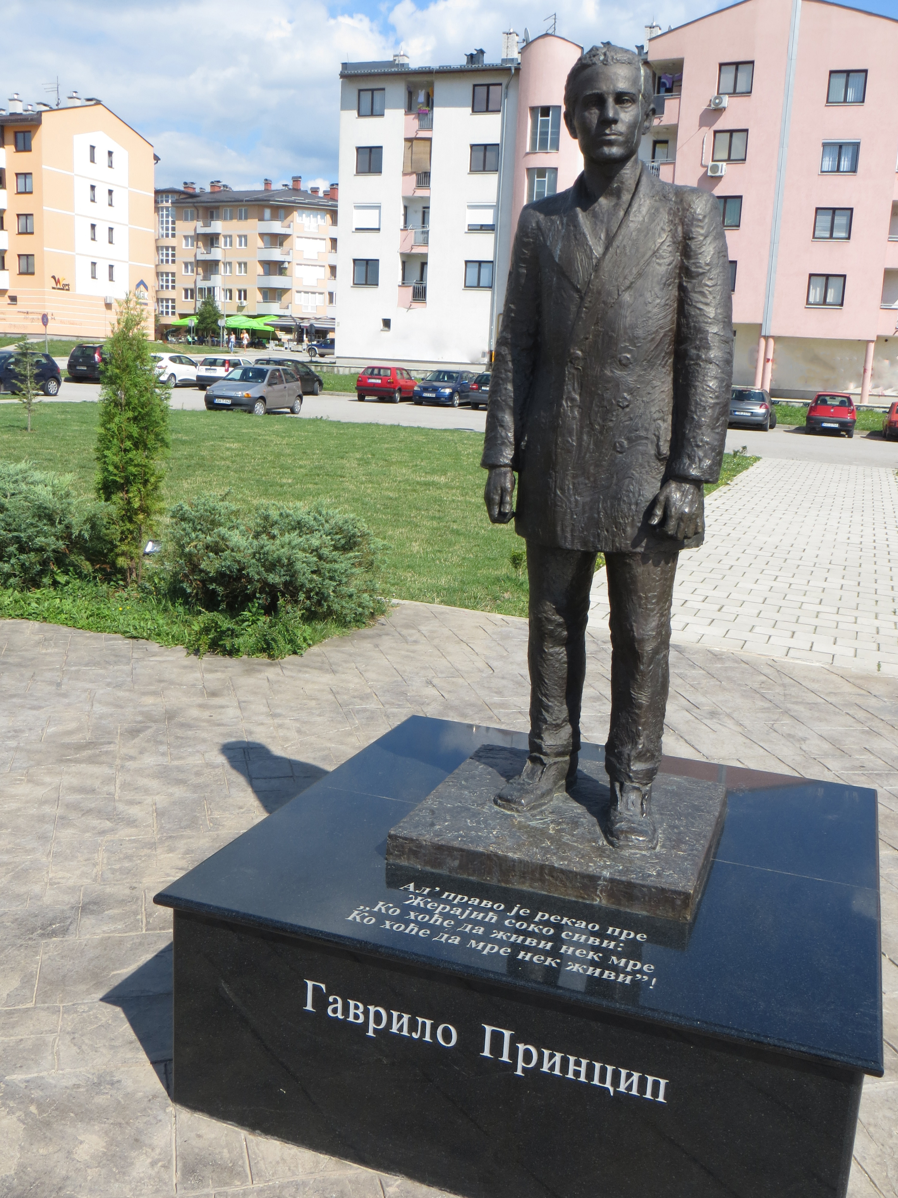 Monument to Gavrilo Princip, East Sarajevo